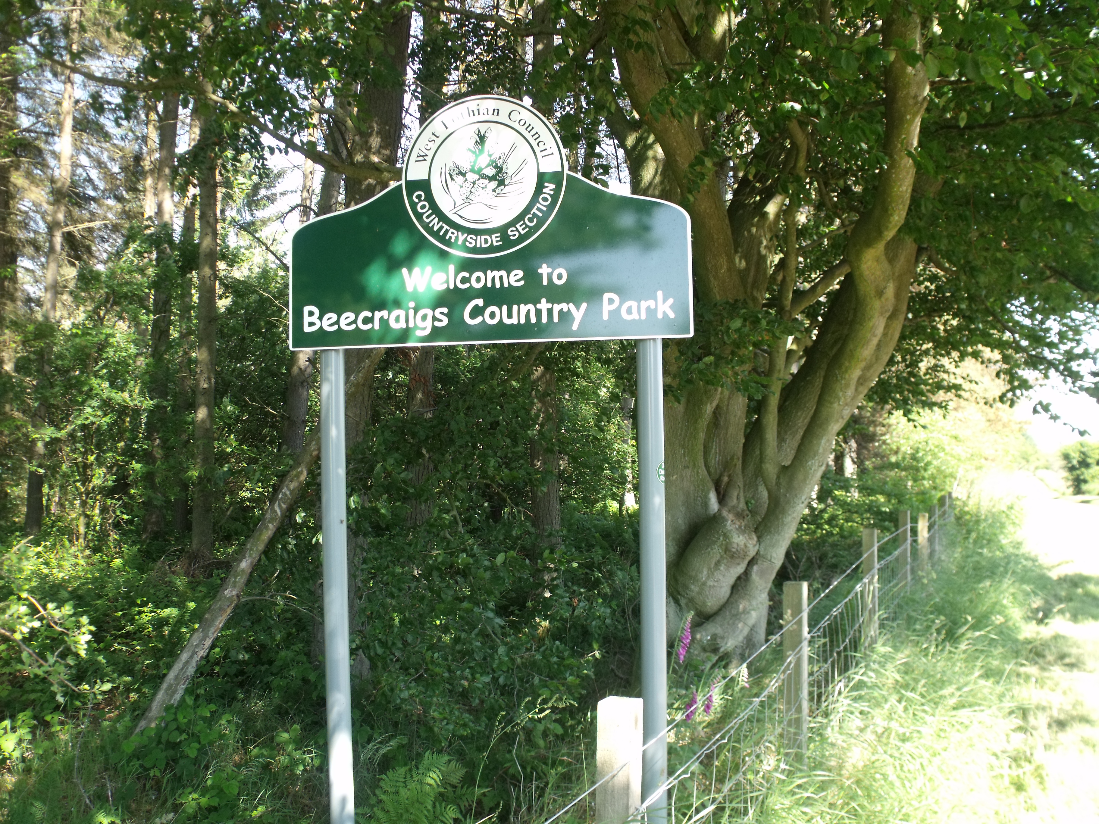 Entrance table of the Beecraigs Country Park